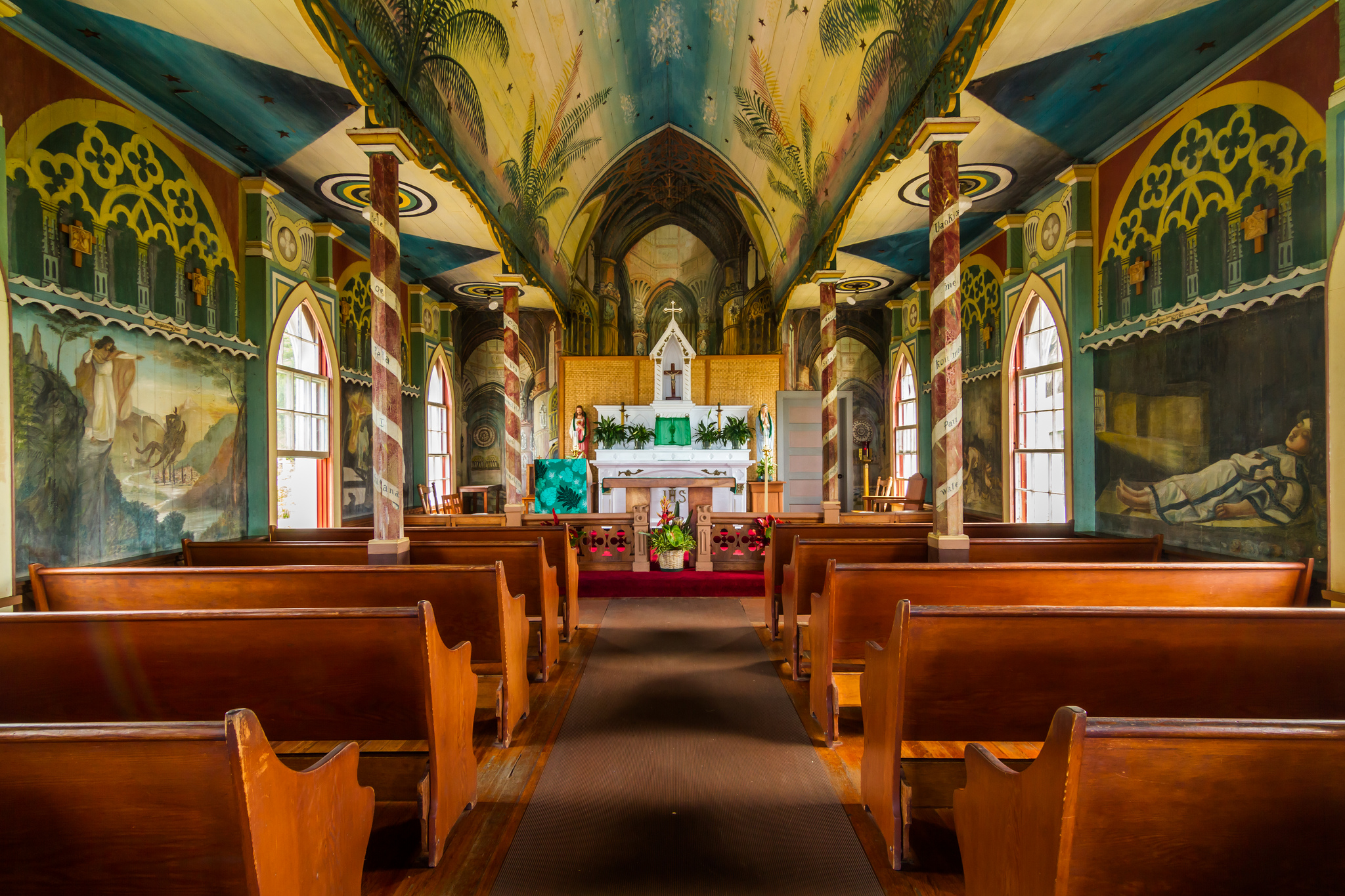 Interior shot of the "Painted Church"